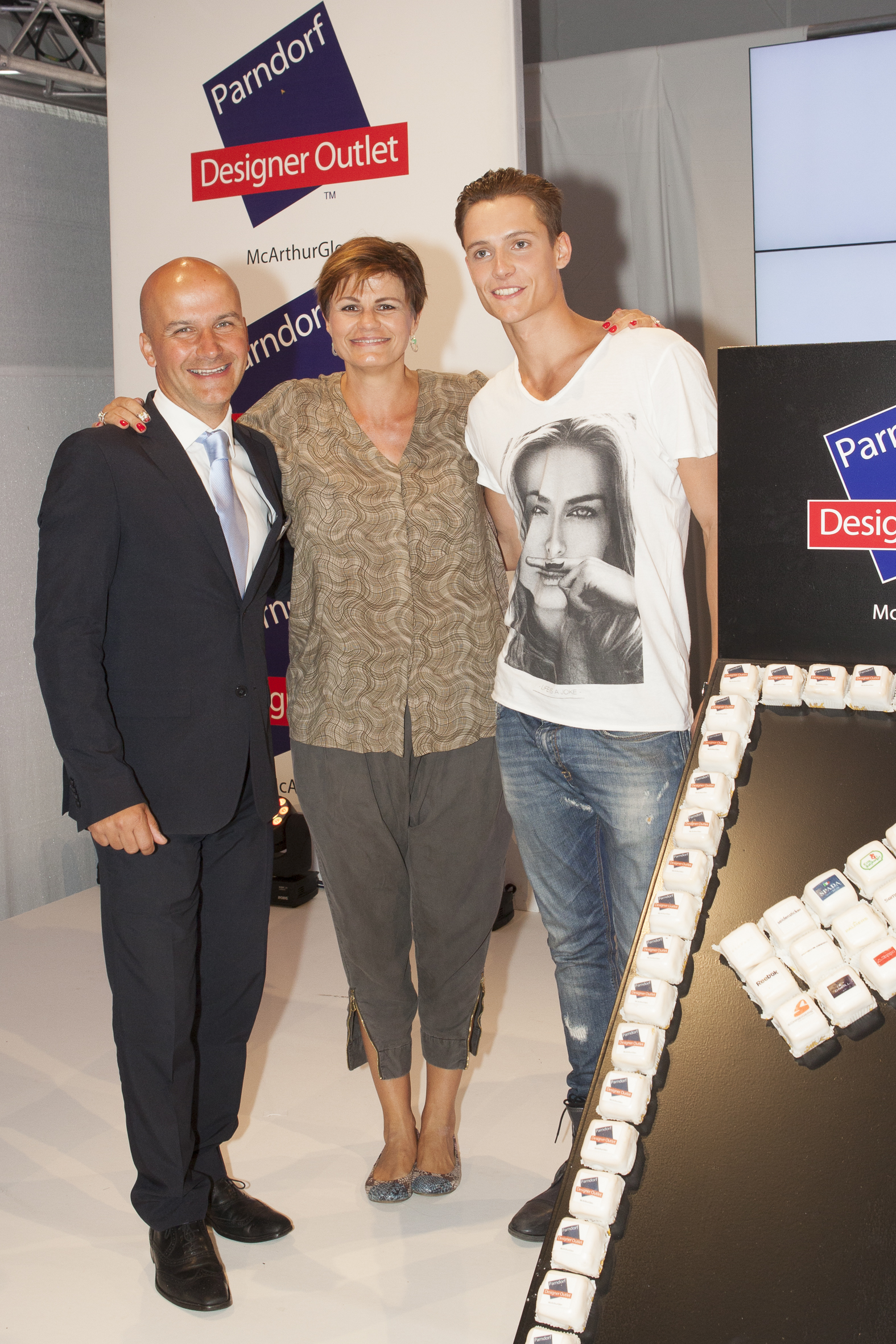 Center Manager Mario Schwann, Kabarettistin Eva Maria Marold, Topmodel Florian Luger Fotocredit: McArthurGlen Designer Outlet Parndorf - Presseabdruck honorarfrei